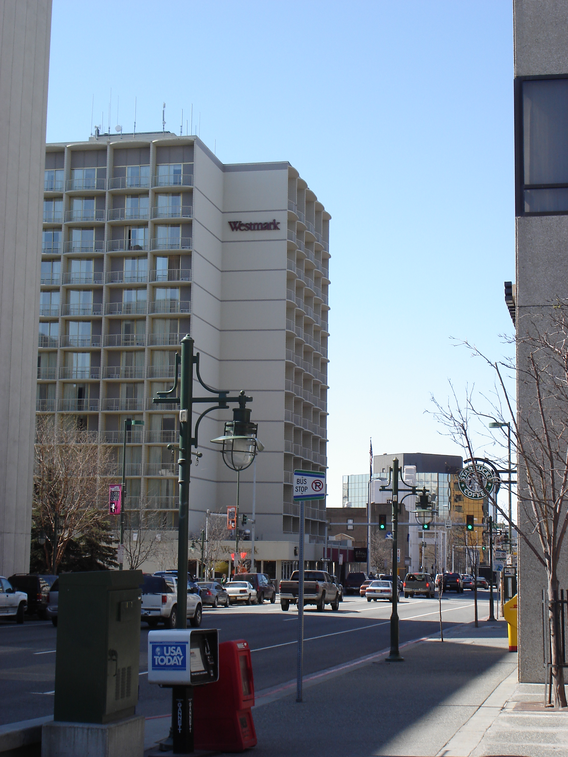 View down 5th Avenue in Downtown Anchorage.